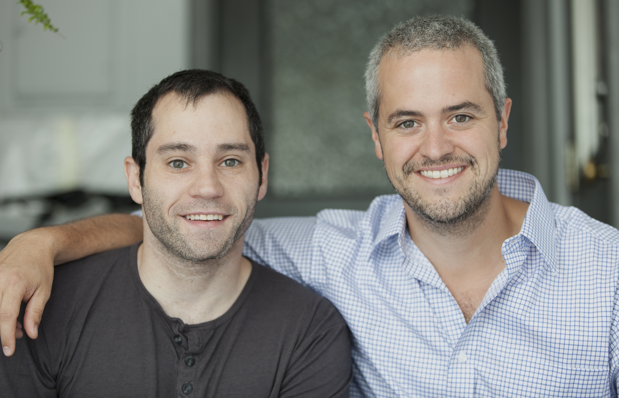 This is an image of the CustoMade co-founders